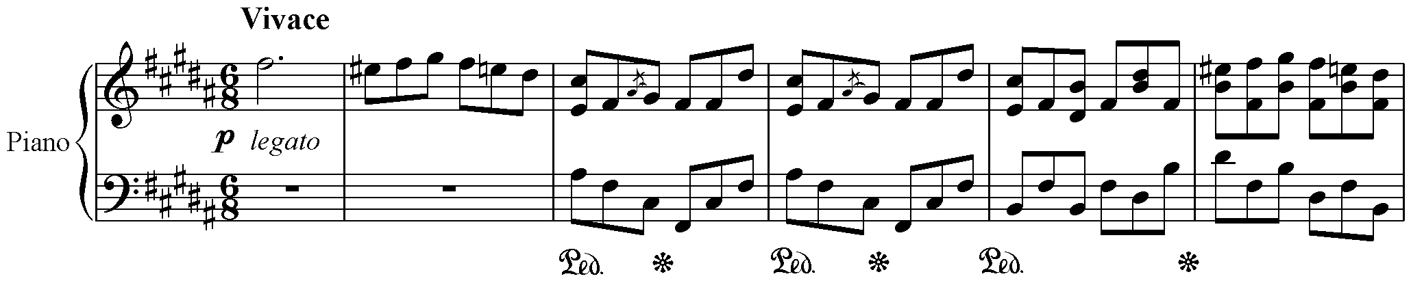 6 first bars of Chopins prelude 11 op. 28